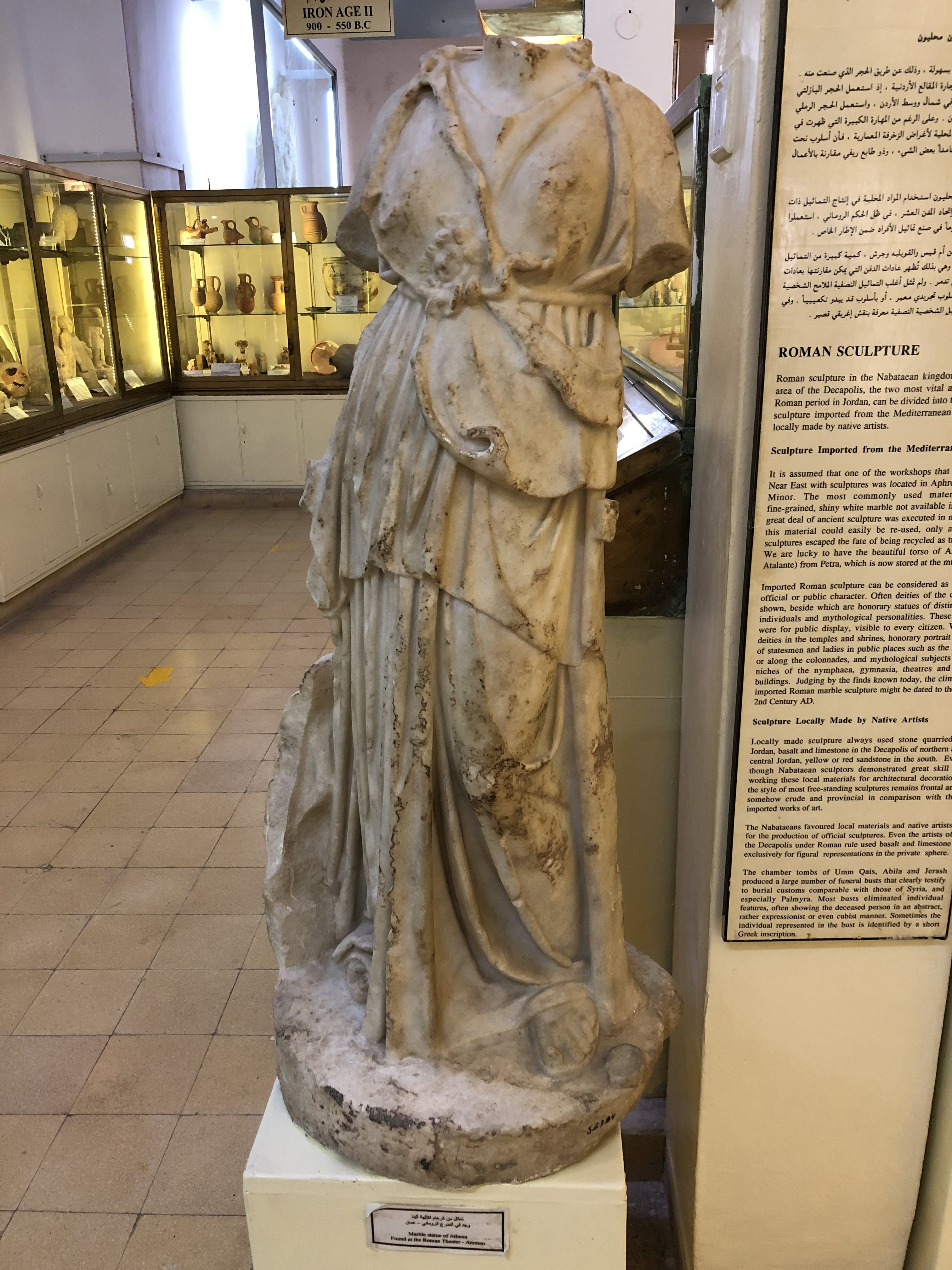 Athena statue from Jordan Archeological Museum